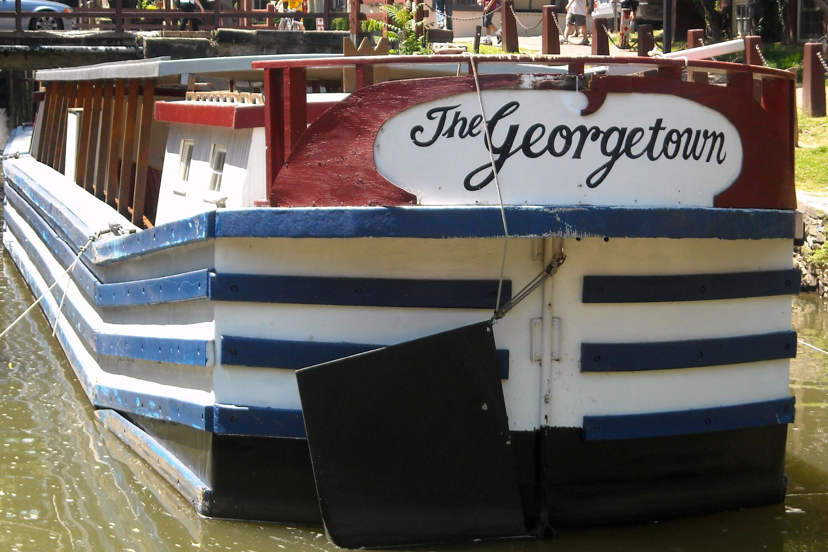 The Georgetown boat at the C&O Canal in the Georgetown neighborhood of Washington, D.C.